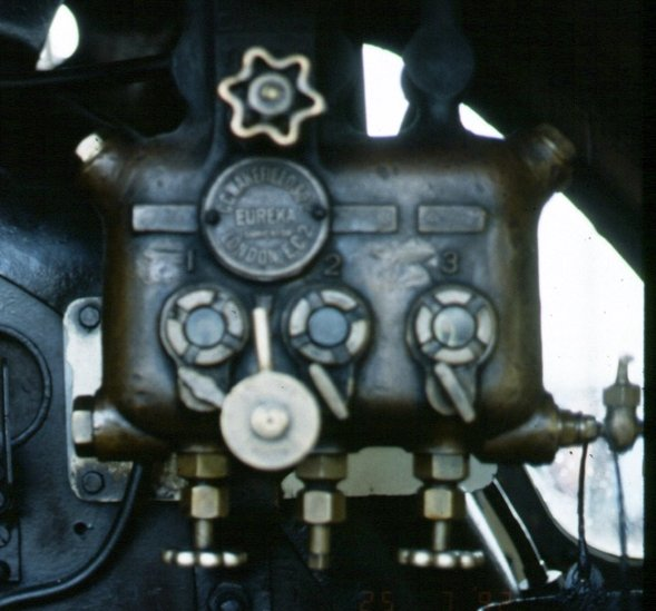 Obtained from on 18 October 2006. Image cropped for detail, in accordance with CC license.